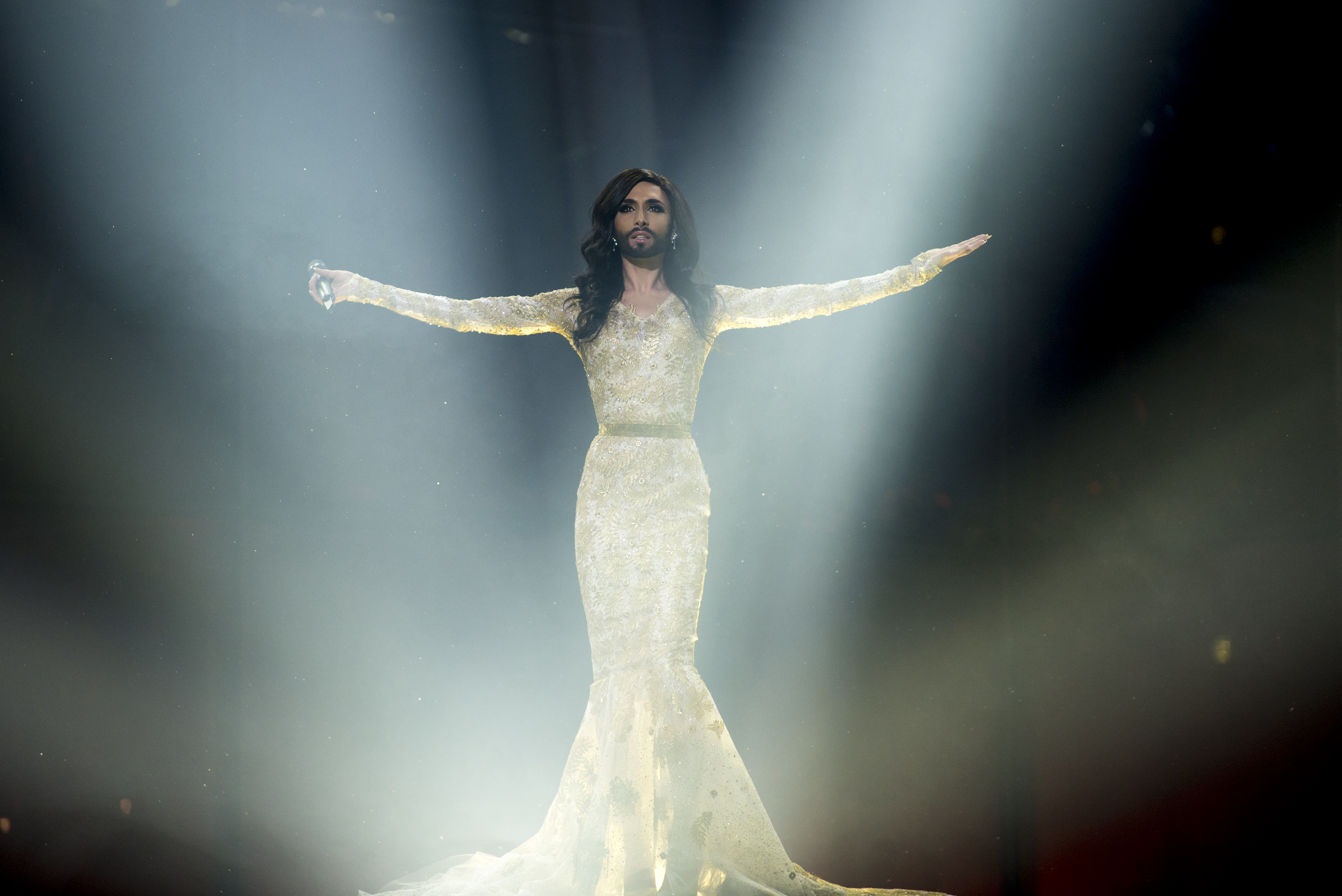 Conchita Wurst representing Austria with the song "Rise Like a Phoenix" during the first dress rehearsal of the second semi final of the Eurovision Song Contest 2014 Copenhagen. (Help translate this text)